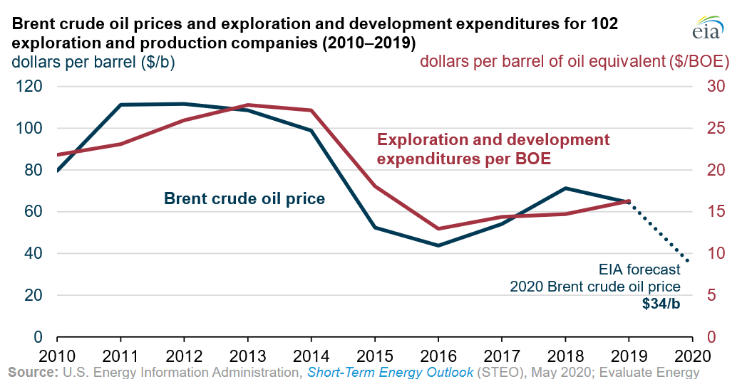 According to the financial reports analyzed by the U.S. Energy Information Administration (EIA), global expenditures related to oil and natural gas exploration and development (E&D) increased $42 billion (13%) for 102 publicly traded oil companies in 2019, totaling $361 billion. As a result of significant crude oil price declines in 2020, however, global proved reserves will likely be revised downward, and E&D expenditures will also likely decline. Several companies have already announced large budget reductions. June 4, 2020